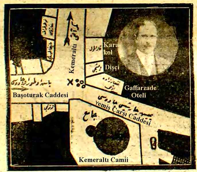 This sketch appeared on the Vakit Newspaper on June 21, 1926 in Turkey. It shows the location of the foiled assassination attempt on the life of Mustafa Kemal during the Izmir conspiracy.